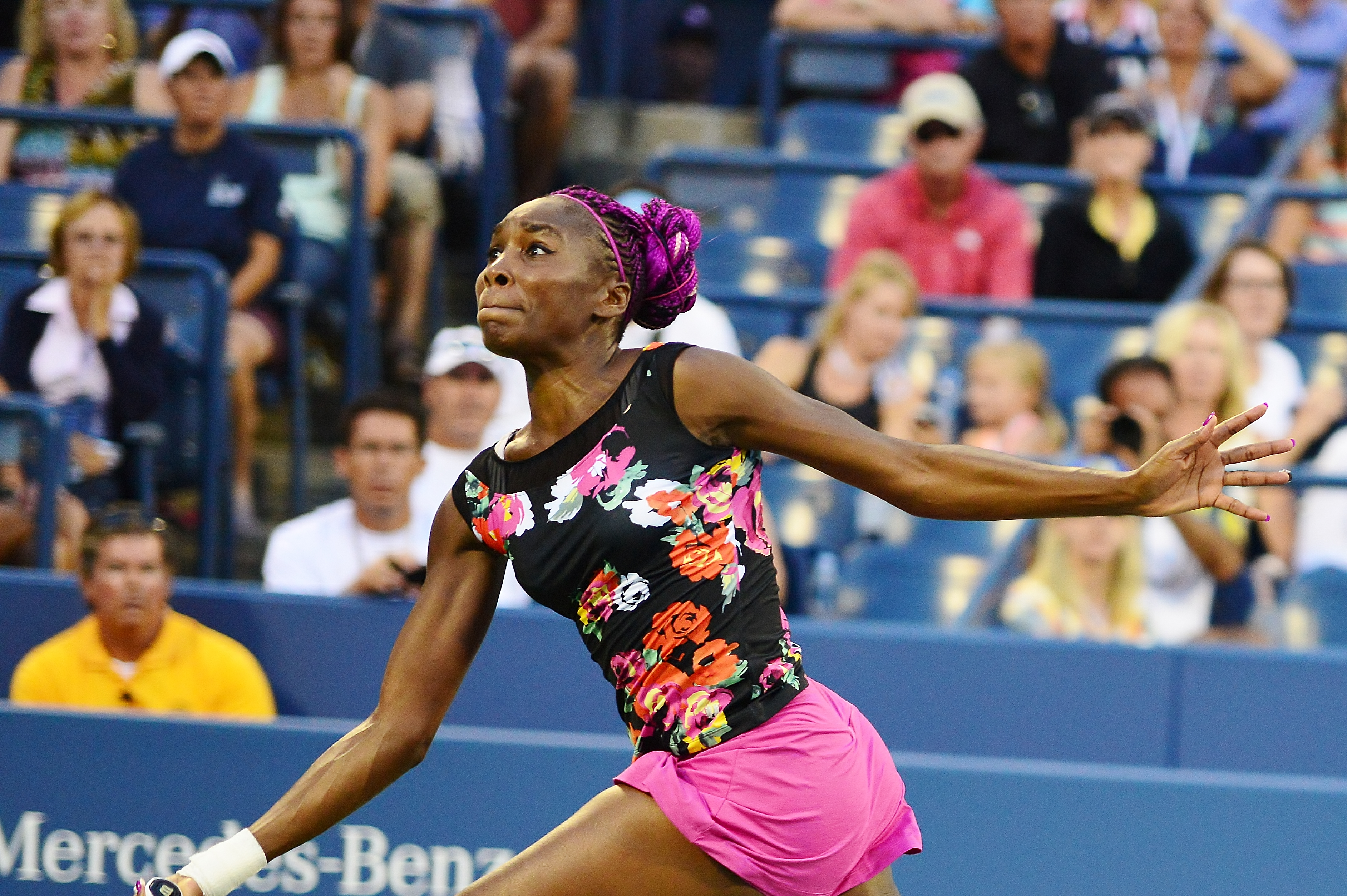 1st round doubles action from the Women's draw at the 2013 US Open. Serena and Venus Williams defeated Silvia Soler-Espinosa and Carla Suarez Navarro; 6-7(5), 6-0, 6-3